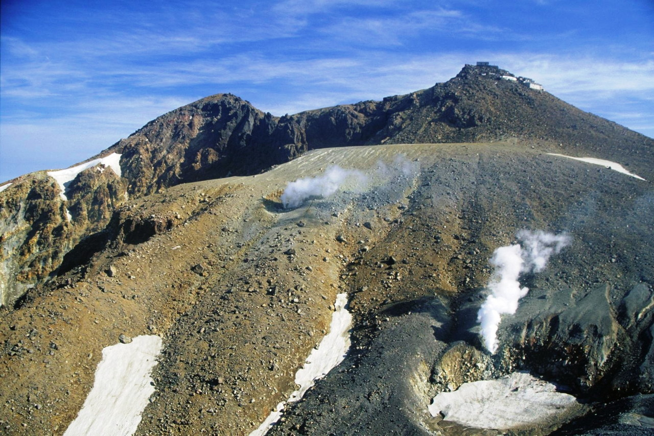 Mount Ontake (Ontakesan) from Okunoin